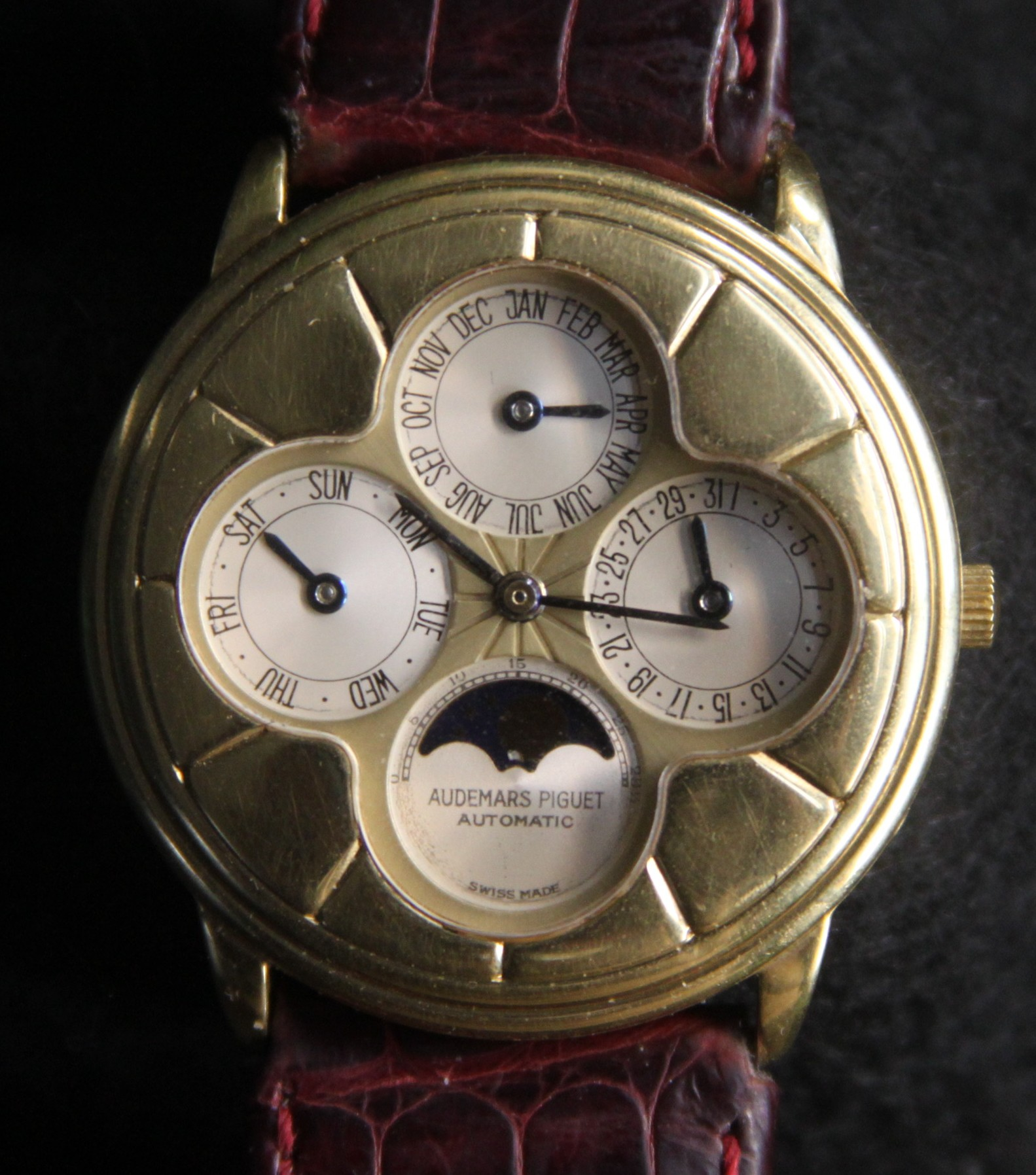 Perpetual calendar, Audemars Piguet